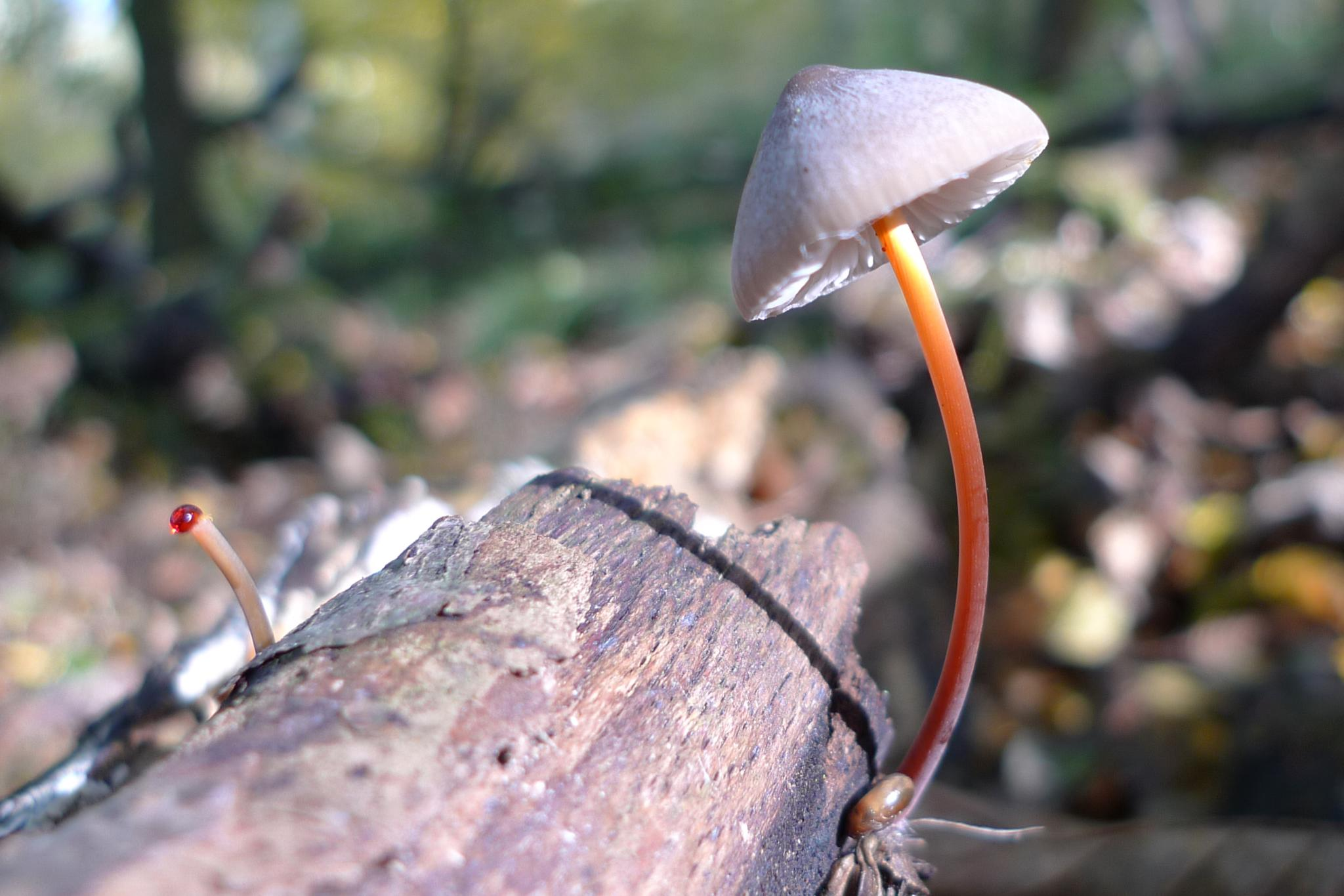 The common name Saffrondrop Bonnet comes from the drop of orange-staining latex that is exuded when you break the stem (as seen on the left of the photo). Growing on a twig in beech leaf litter in Hertfordshire, England.